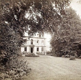 Eagle House: Photograph by Colonel Blathwayt. He was the father of Mary Blathwayt and they lived at Eagle House in Somerset.